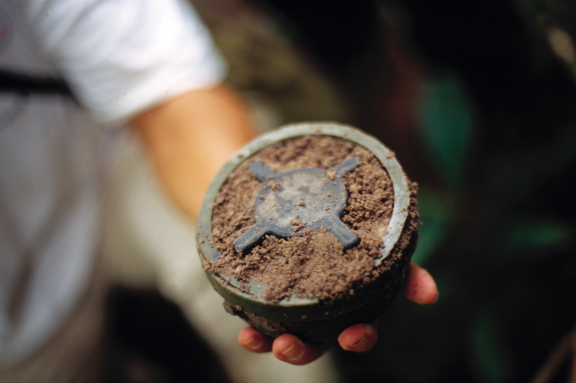 Former Khmer Rouge Soldier Aki-Ra has dedicated his life to ridding his country of landmines.